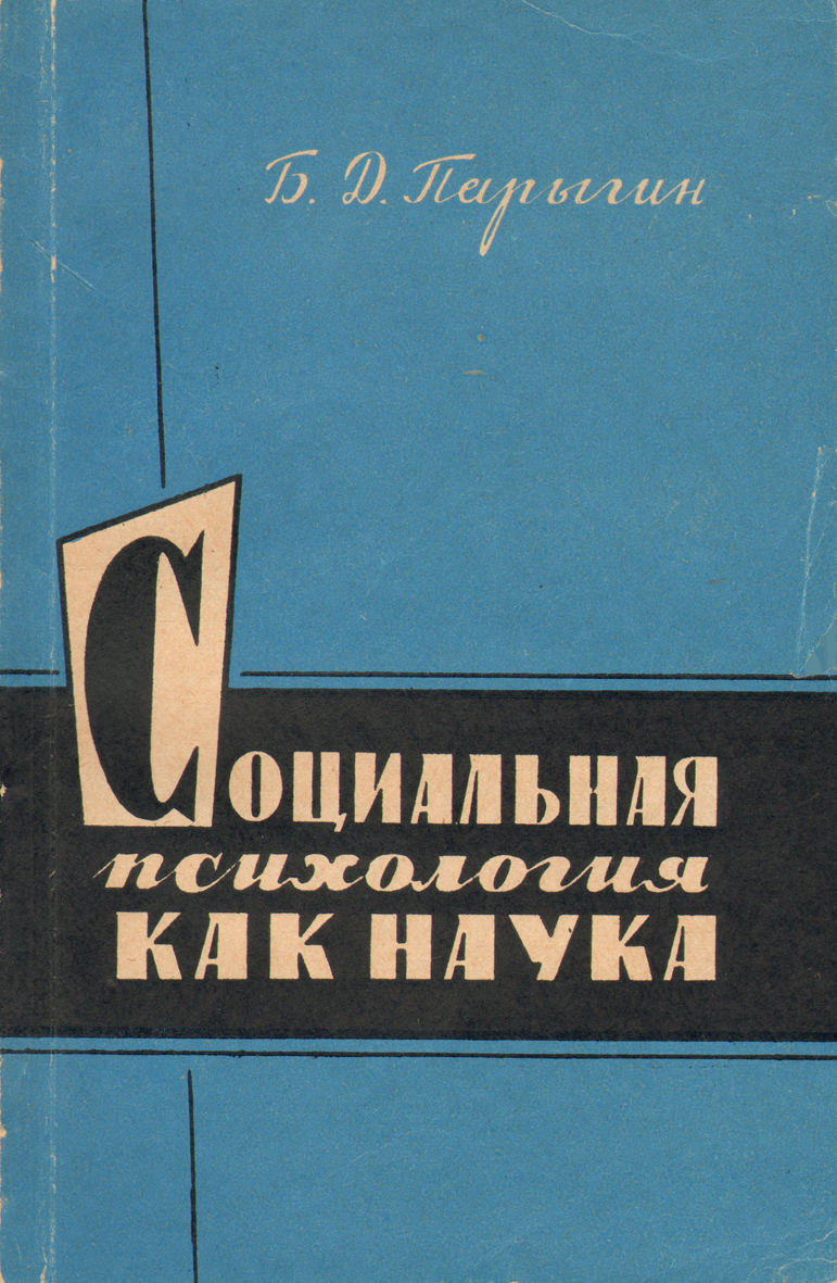 Social Psychology as a Science. 1965. Book cover.